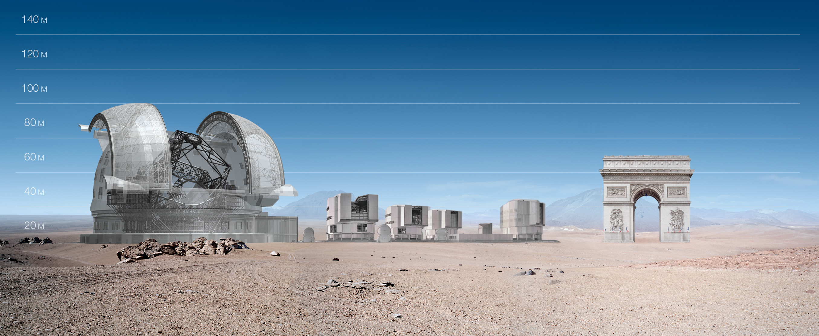 E-ELT and VLT sizes compared with Arc de Triomphe. The design for the E-ELT shown here was published in 2009 and is preliminary.